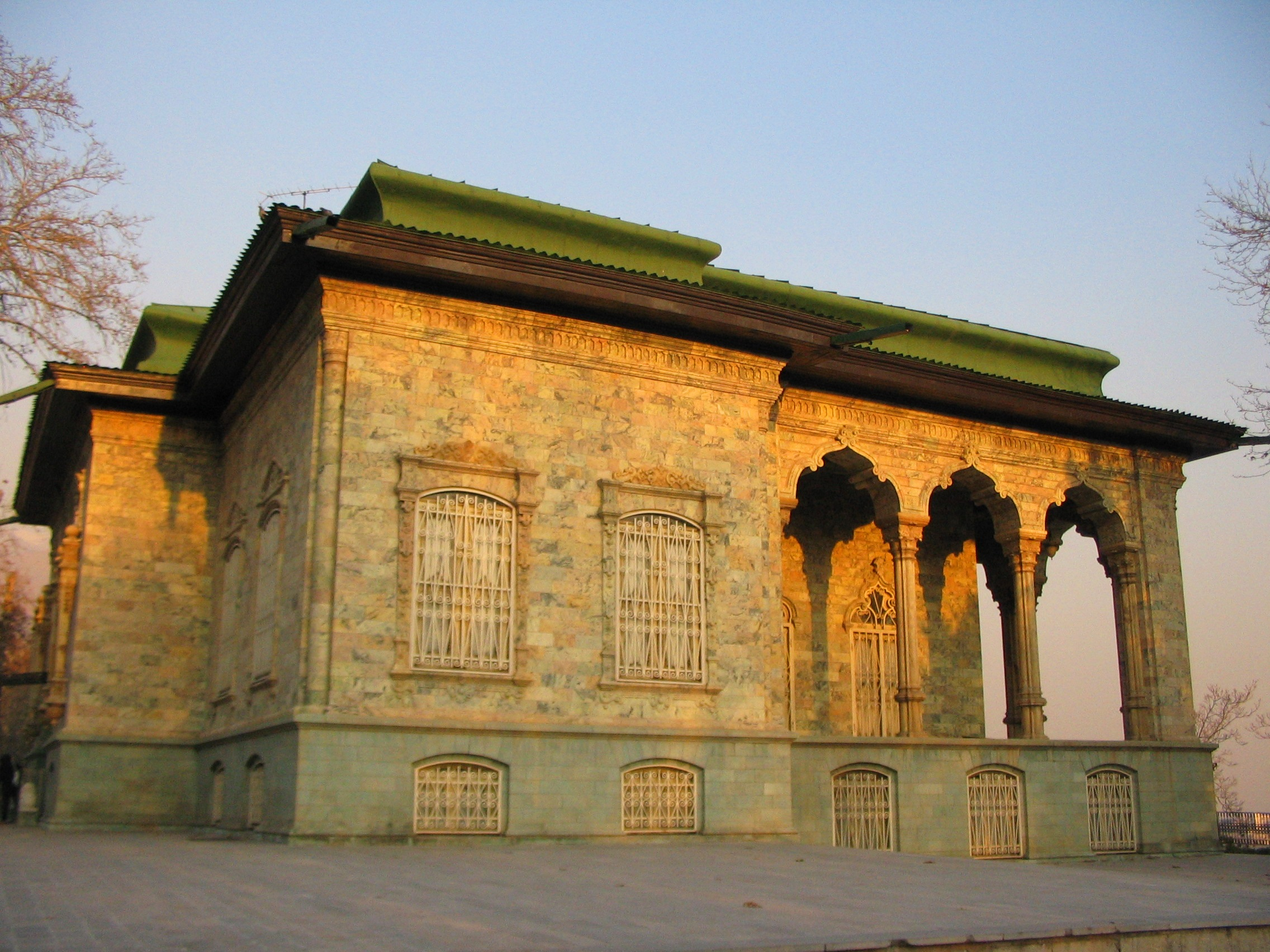 Green Palace — in the Sadabad Palace complex of Tehran, Iran. Example of Qajar dynasty architecture.